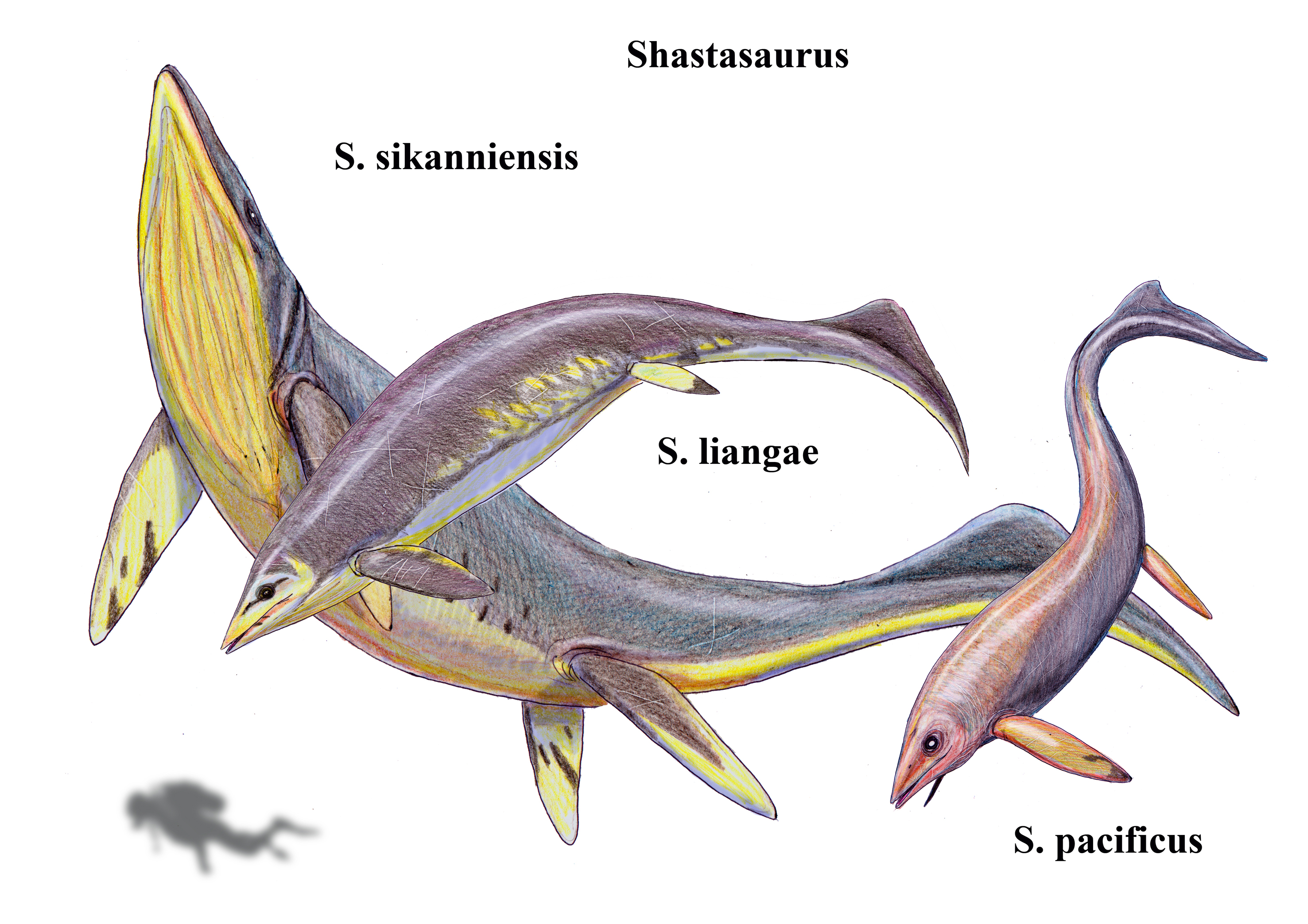 Species of Shastasaurus - giant Late Triassic ichthyosaur.